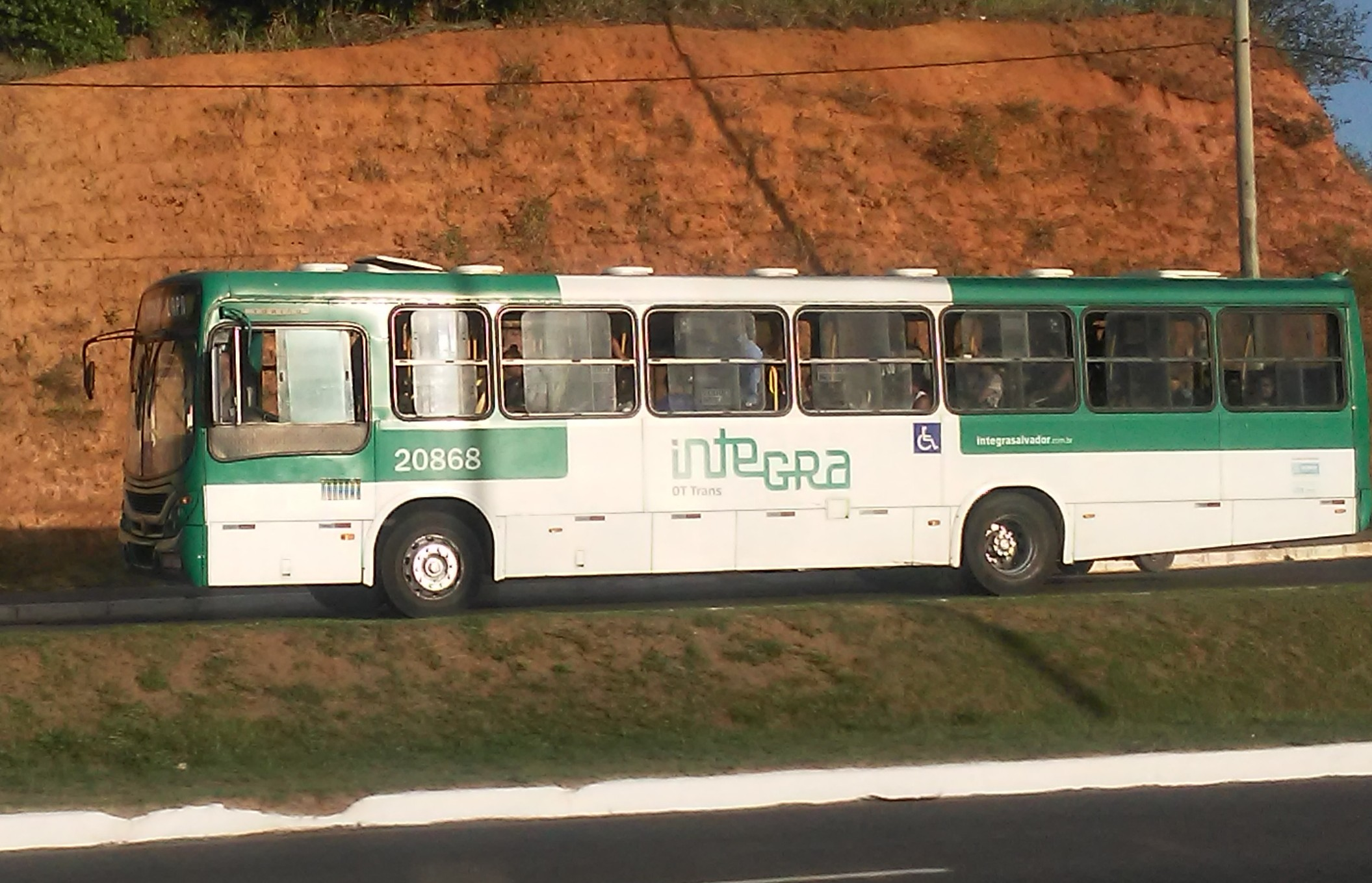 Marcopolo Torino 2007 bus on Volkswagen 17-230 OD chassis and Euro V engine from the company Ótima Transportes Salvador, prefix 20868 in Salvador, Bahia, Brazil.